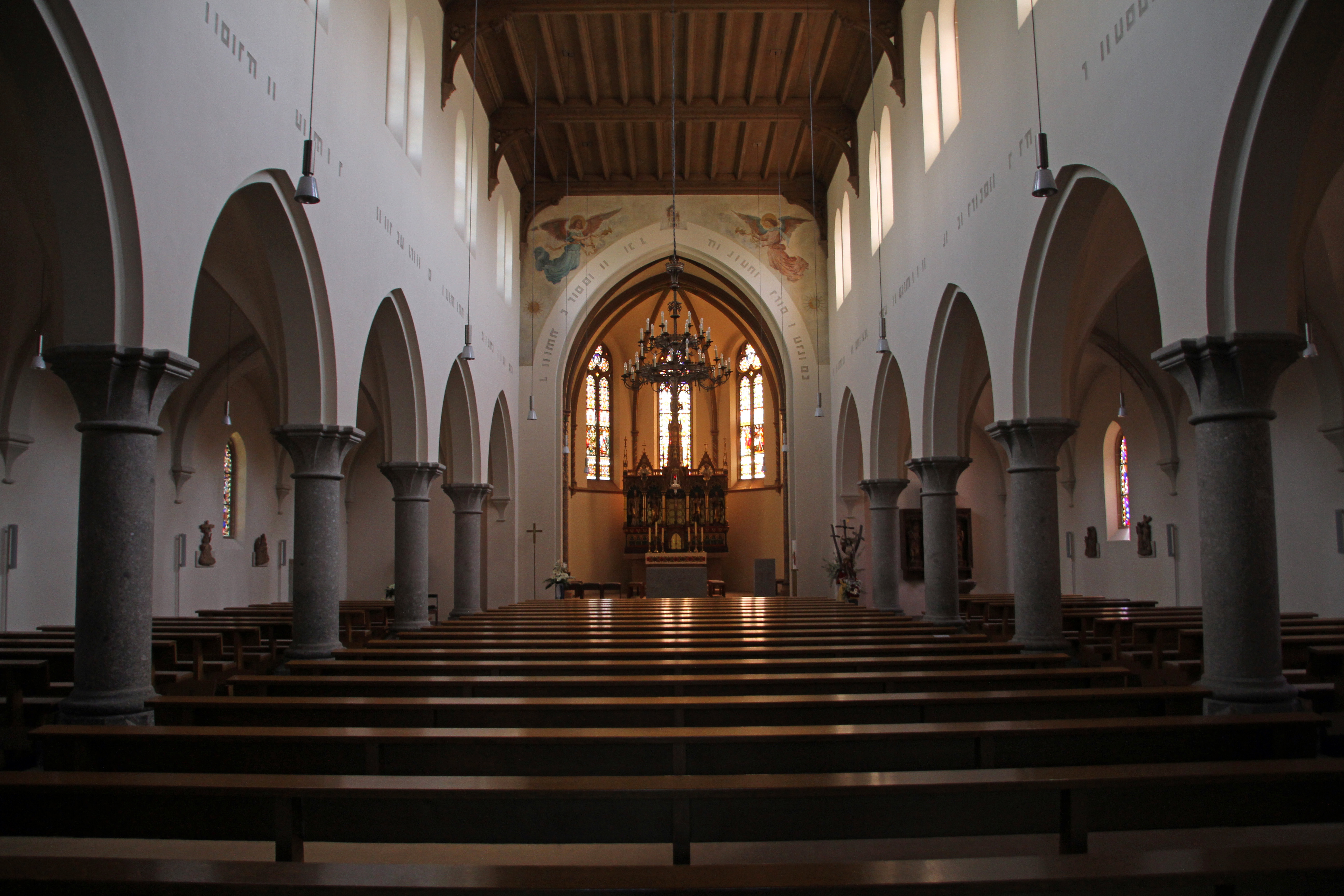 Church of St. Johannes der Täufer in Bühl-Vimbuch, interior decoration.